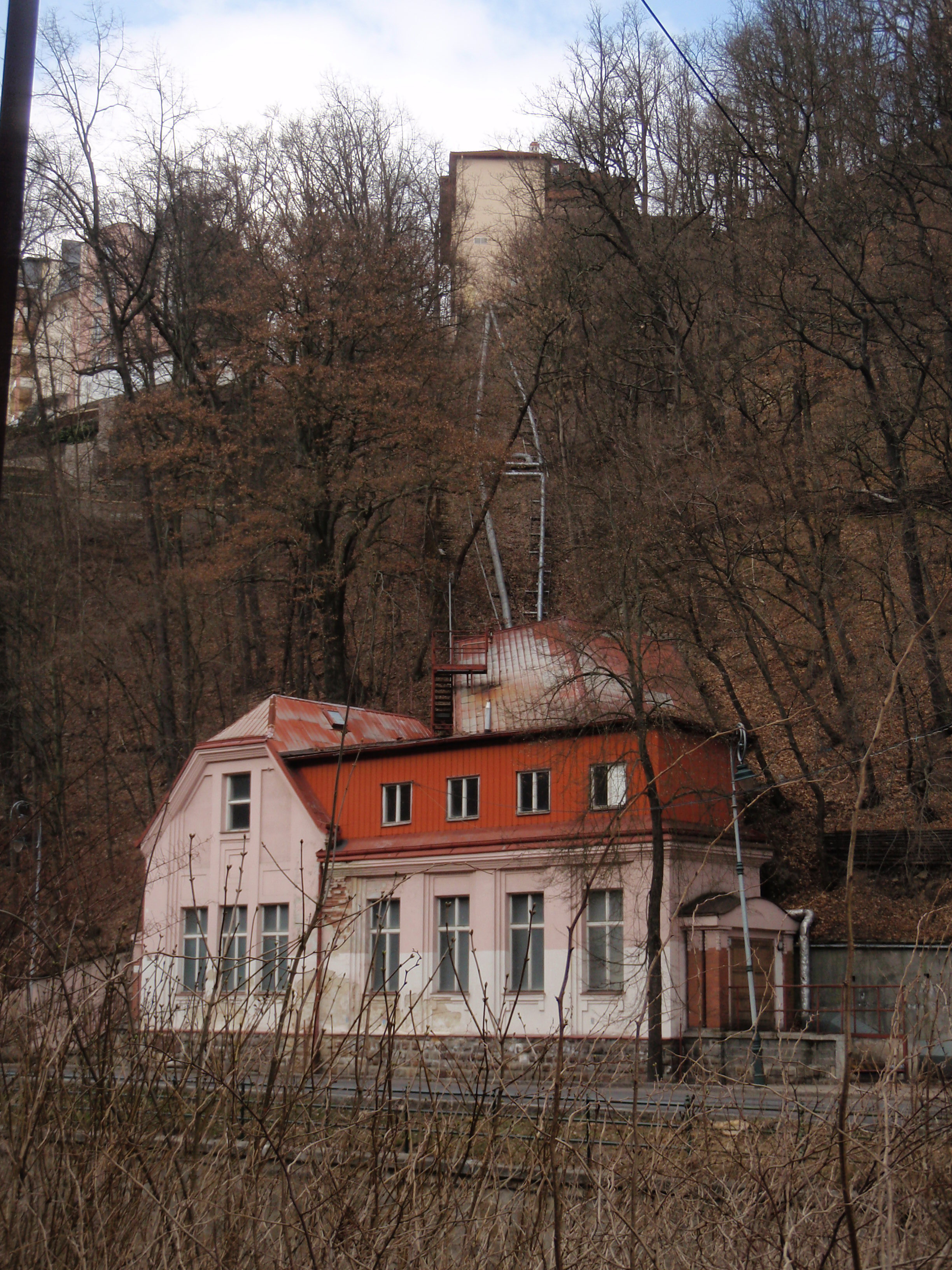 Former funicular Slovenská - Imperial, now with pipelines